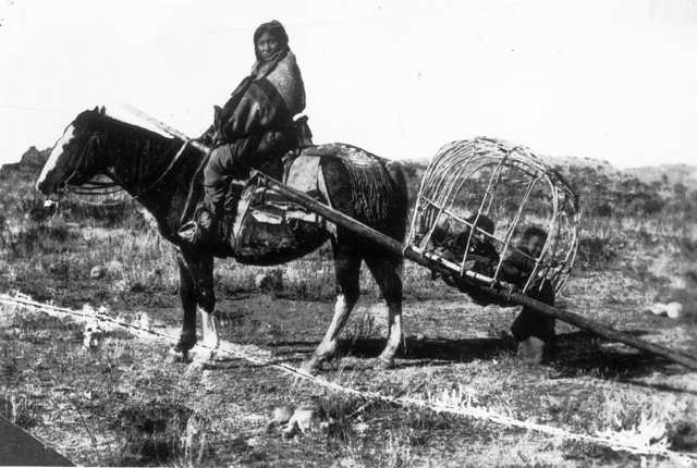 A Native American (Plains) woman rides on the back of a horse with her legs around the shafts of a travois which drags behind. Two small children occupy a wooden restraining cage which has been built on top of the support bench on the travois. NOTES Title and "Wyoming State Historical Society" hand-written on back of print.